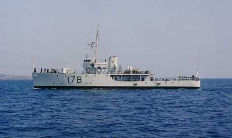 HMCS Brockville